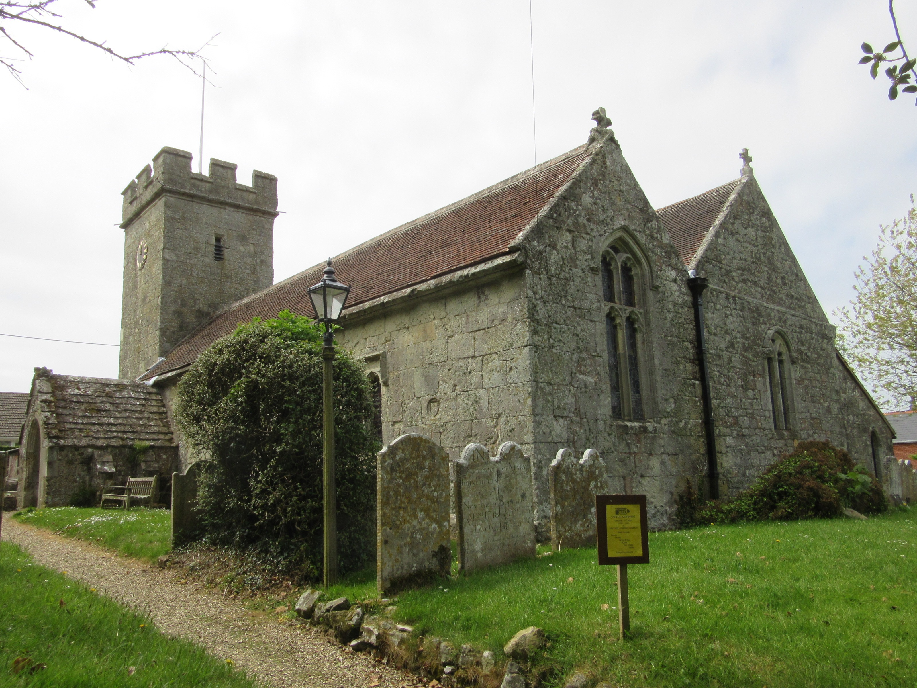 St Mary and St Radegund's Church, High Street, Whitwell, Isle of Wight, England. The Anglican parish church of the village of Whitwell.